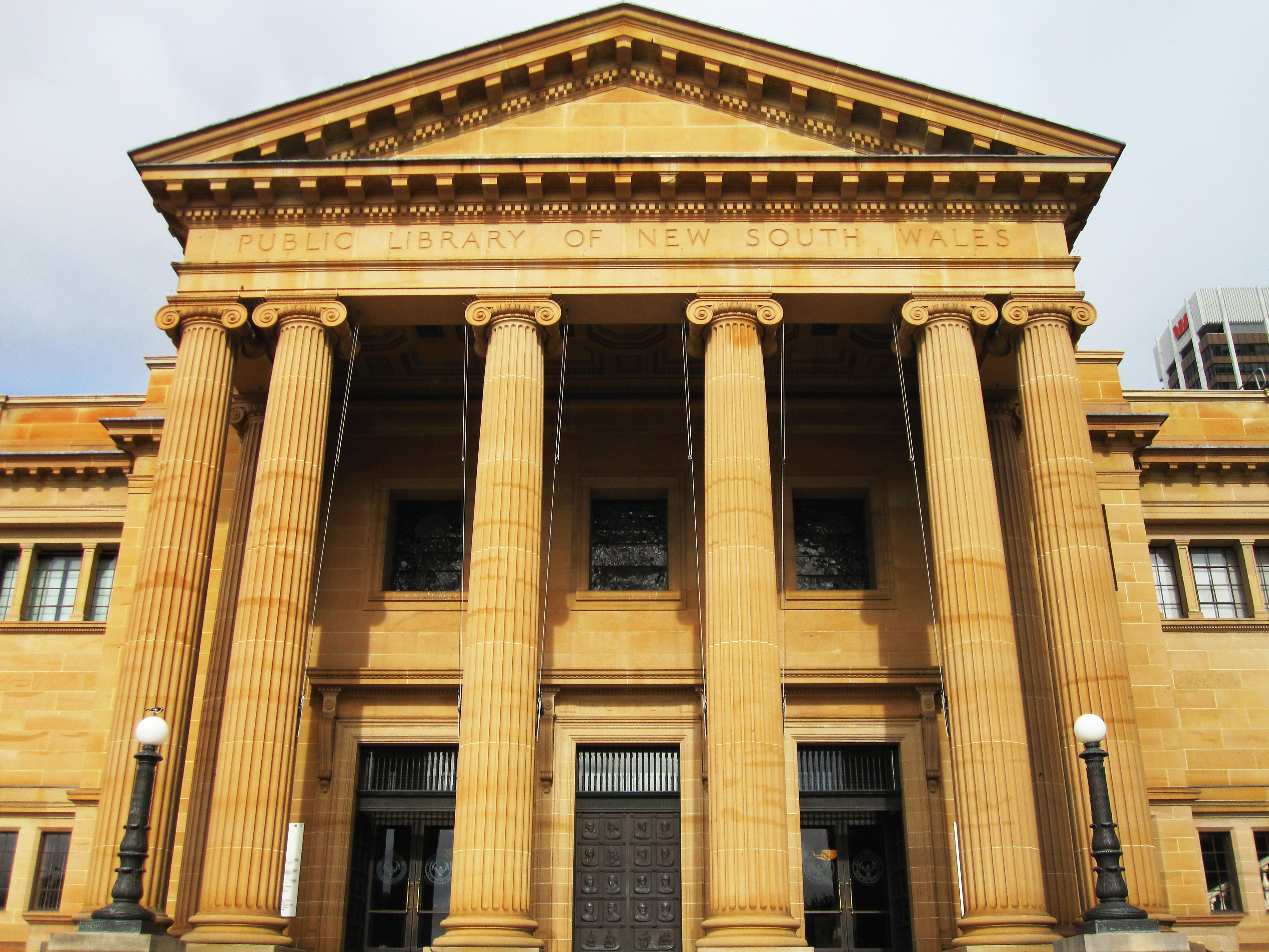 State Library of New South Wales